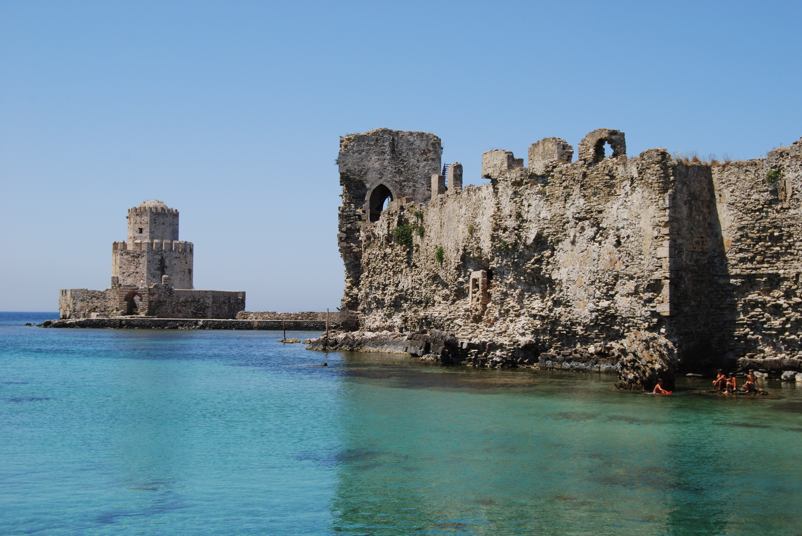 Burtzi and the Castle of Methoni, Messinia, Greece